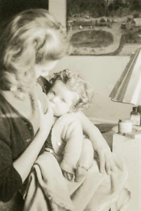 Photograph Australian artist Joy Hester nursing her son Sweeney. In the background can be seen a painting by 'Professor' Henry Tipper (Harold Deering), a trick cyclist and amateur painter whose work was discovered and promoted by Albert Tucker.